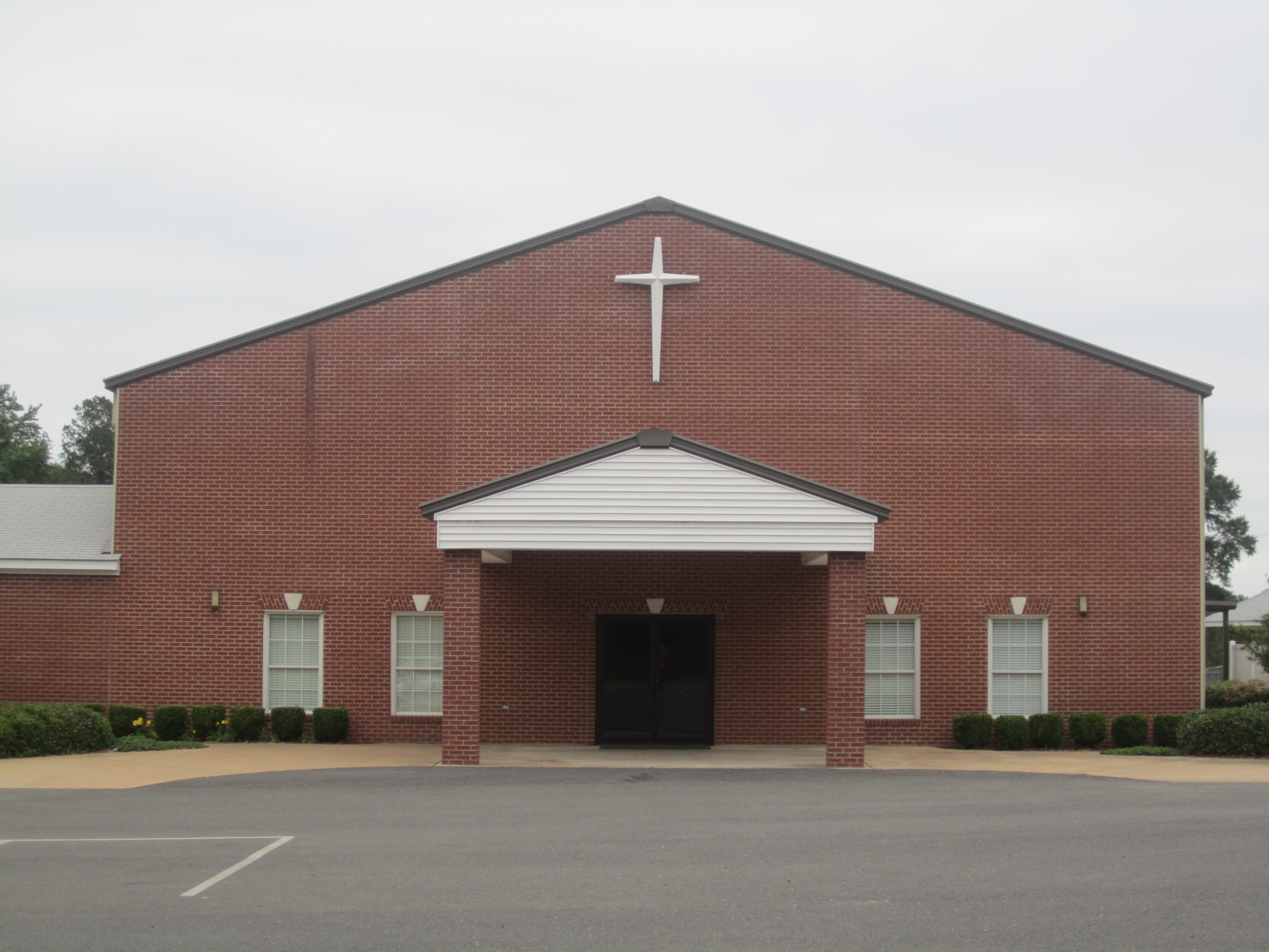 I took photo of Martin Baptist Church in Martin, LA, with Canon camera -- revised photo from 2010.